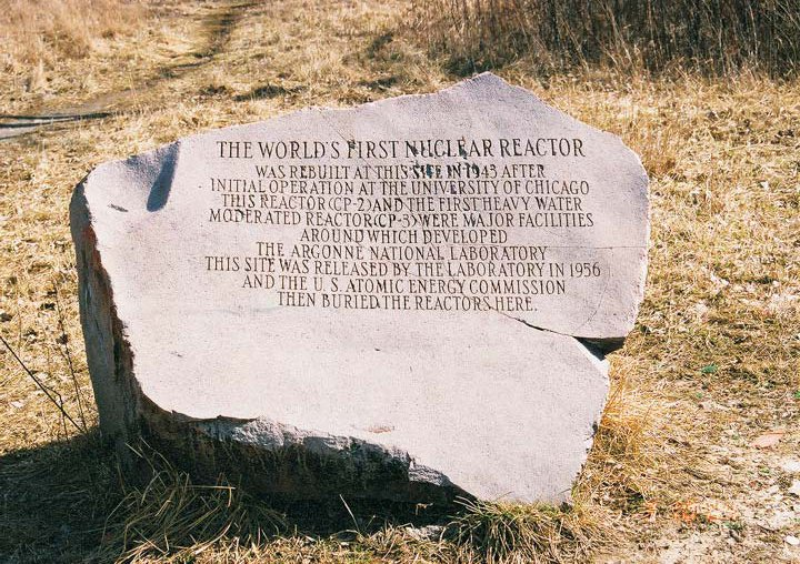 Site A/Plot M Disposal Site. Marker at Site A. Text of the inscription: The world's first nuclear reactor was rebuilt at this site in 1943 after initial operation at the University of Chicago. This reactor (CP-2) and the first heavy water moderated reactor (CP-3) where major facilities around which developed the Argonne National Laboratory. This site was released by the laboratory in 1956 and the U.S. Atomic Energy Commission then buried the reactors here.